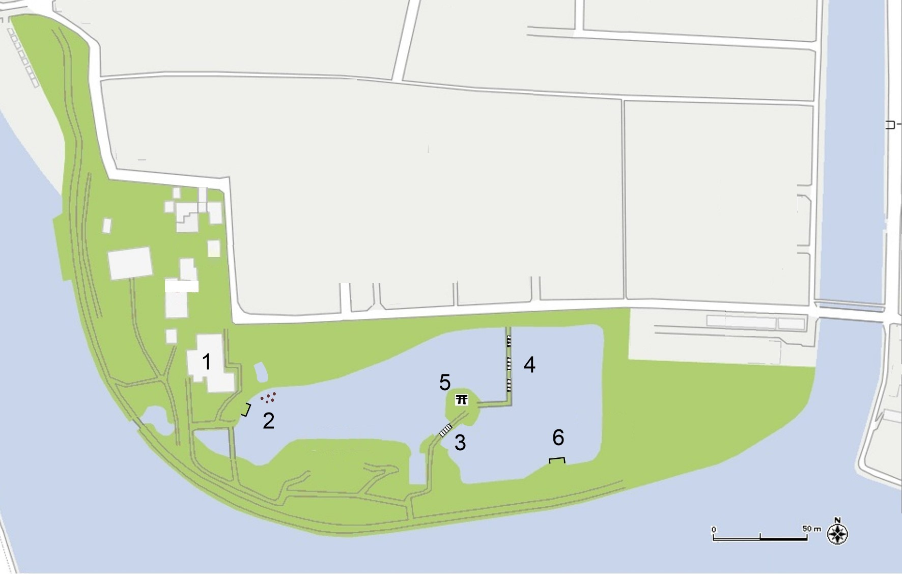 Yôsui-en (Wakayama)